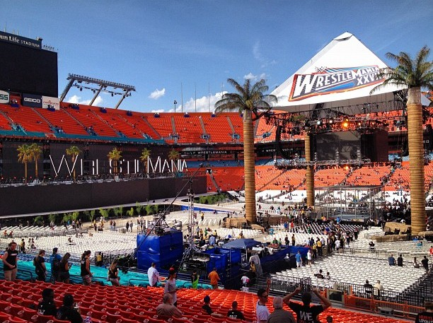 Welcome to Wrestlemania 28! This is AMAZING!